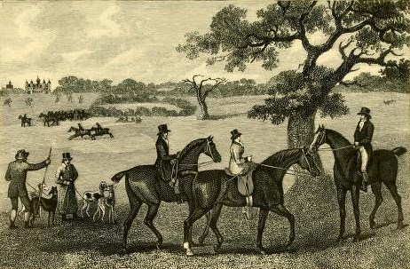 Coursing at Hatfield (wood engraving by F. Babbage)